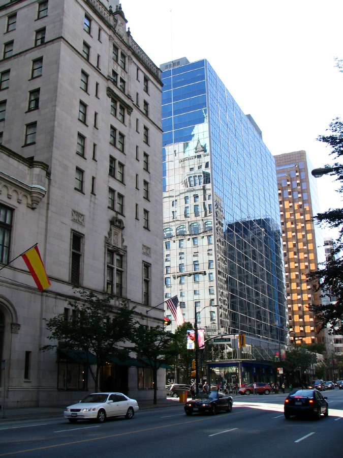 This image was created by me, Flying Penguin of Pacific Spirit Photography of Burnaby, British Columbia, Canada.